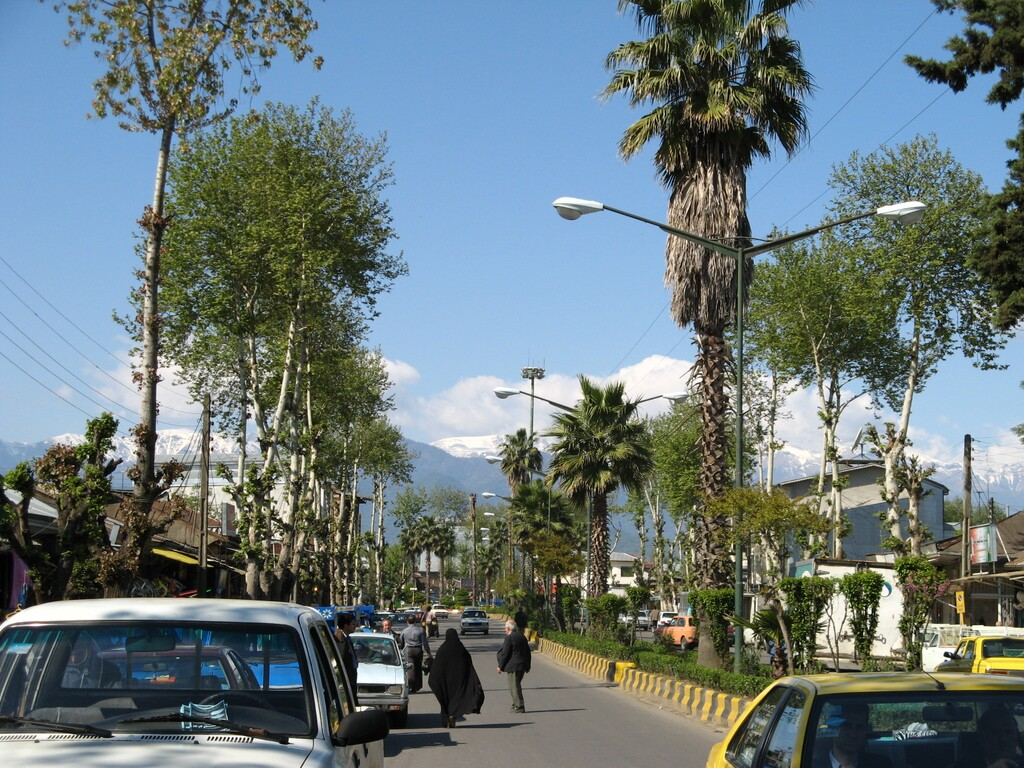 Fuman city, Gilan province.